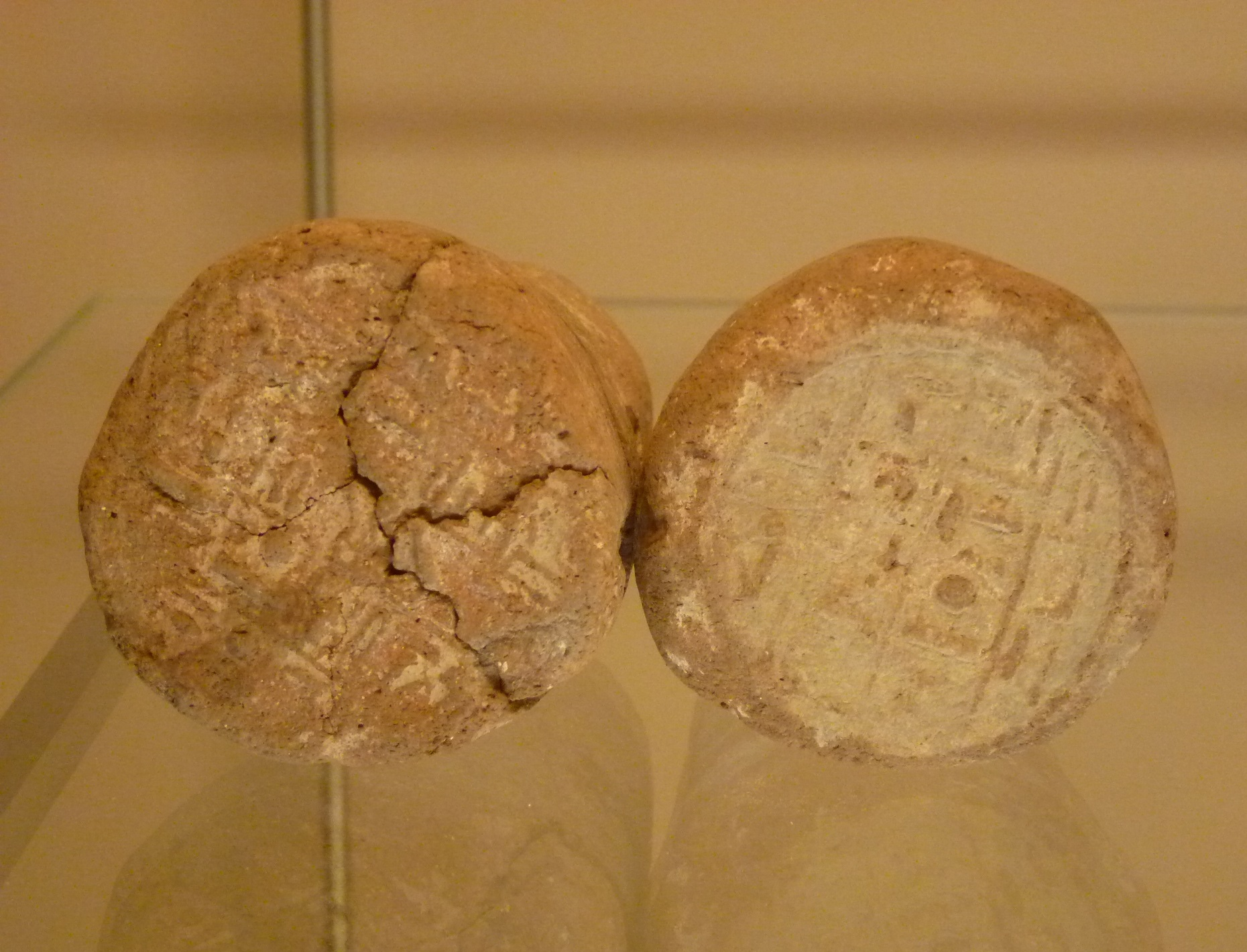 Two funerary cones bearing the name of two distinct characters, both named Menkheperraseneb. One was a High Priest of Amun during the reign of Thutmose III and owner of two theban tombs (TT86 and TT112); the other was a Scribe of the King's Granaries during the reigns of Thutmose III and Amenhotep II and owner of TT79. Terracotta from Sheikh Abd el-Qurna, 18th dynasty, New Kingdom. Archeological Museum of Bologna (Italy), Eg. 3409, 3414.